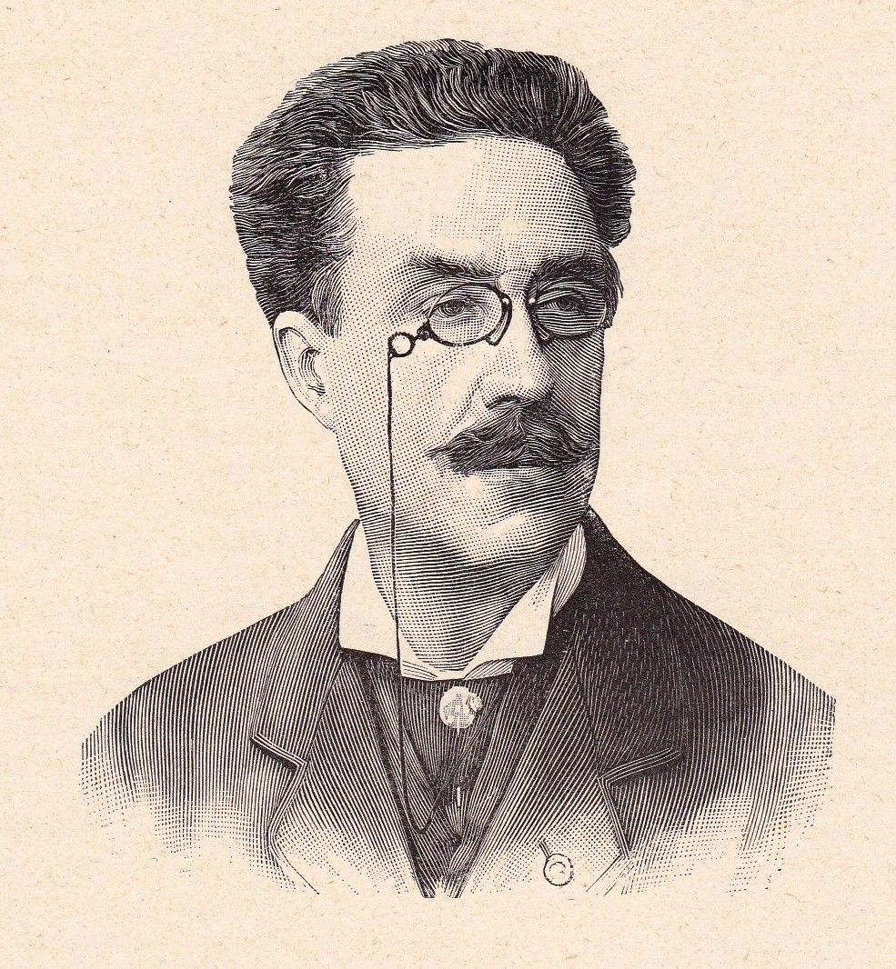 French sculptor Emmanuel Frémiet (1824-1910) by Adolphe Lalauze (1838-1905)